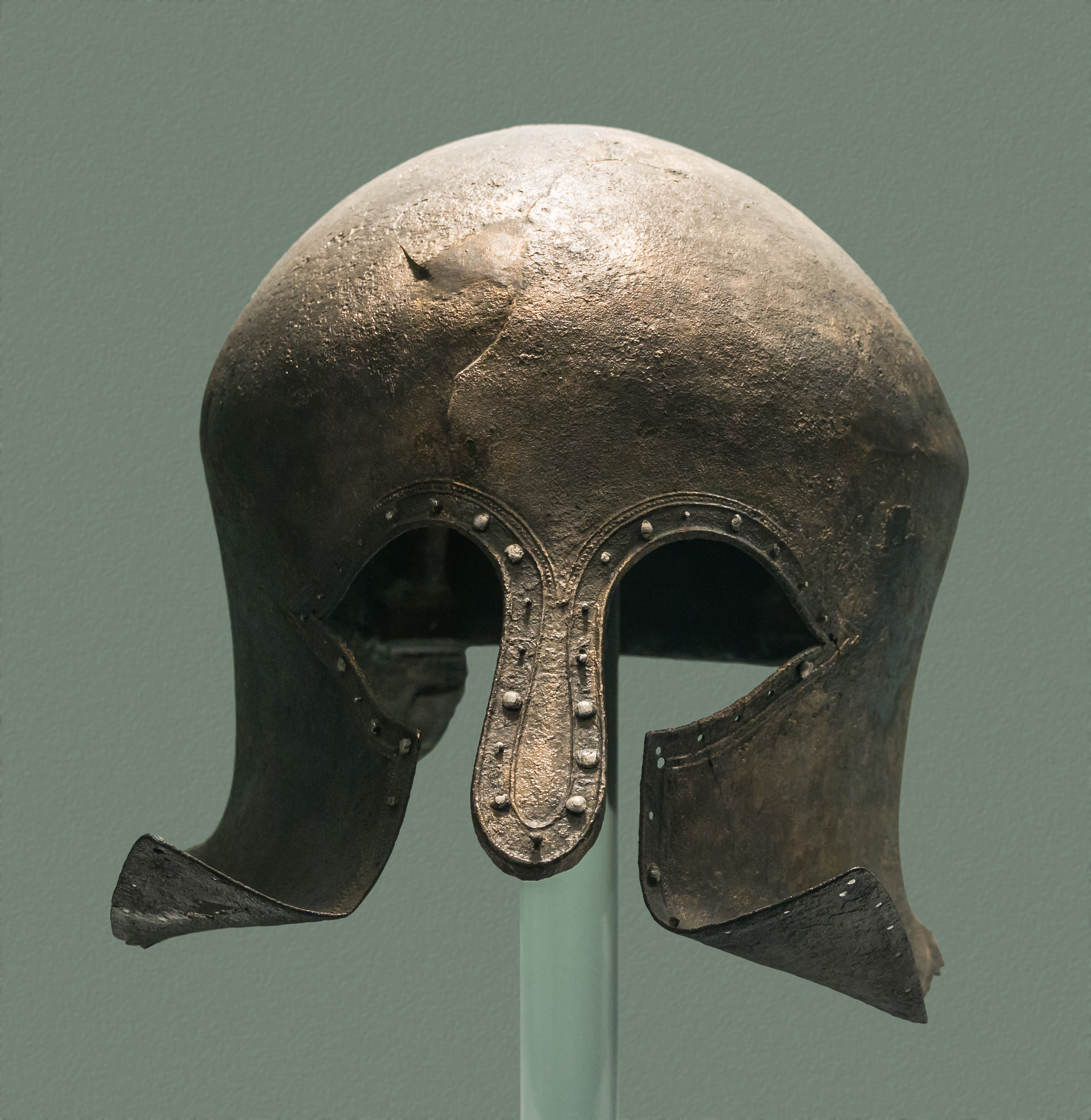 Ancient Greek helmet, Corinthian style. Bronze. ca. 600 BCE. NAMAthens.